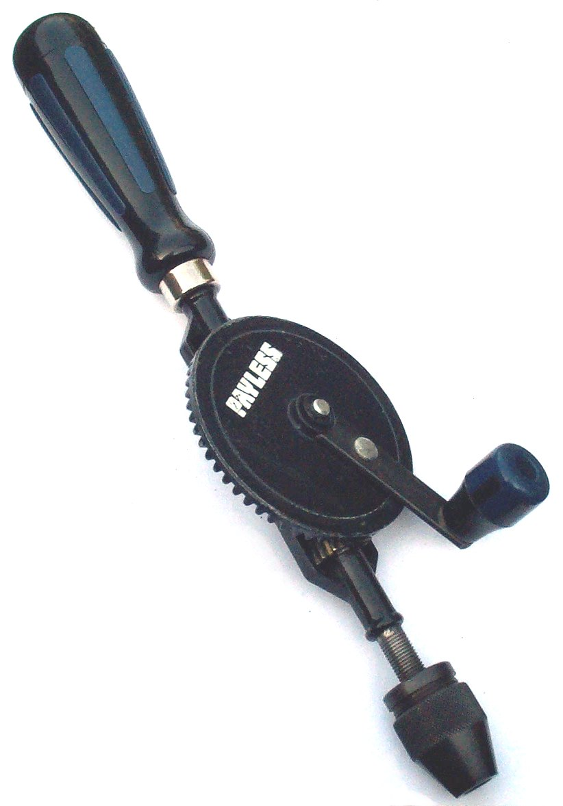 Hand drill